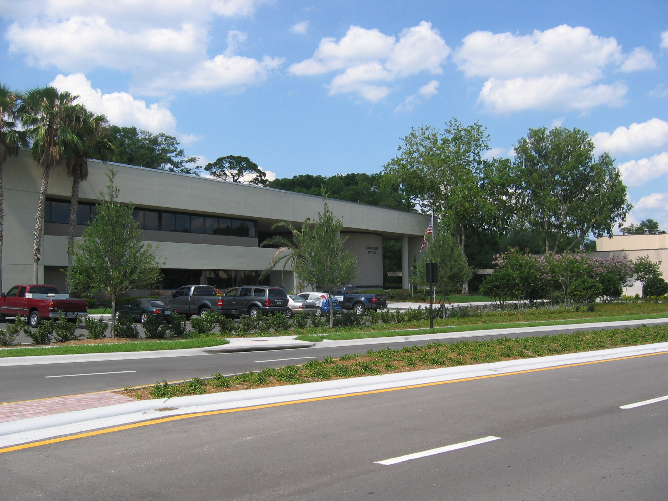 A view of Casselberry, Florida's City Hall on Triplet Lake Drive.